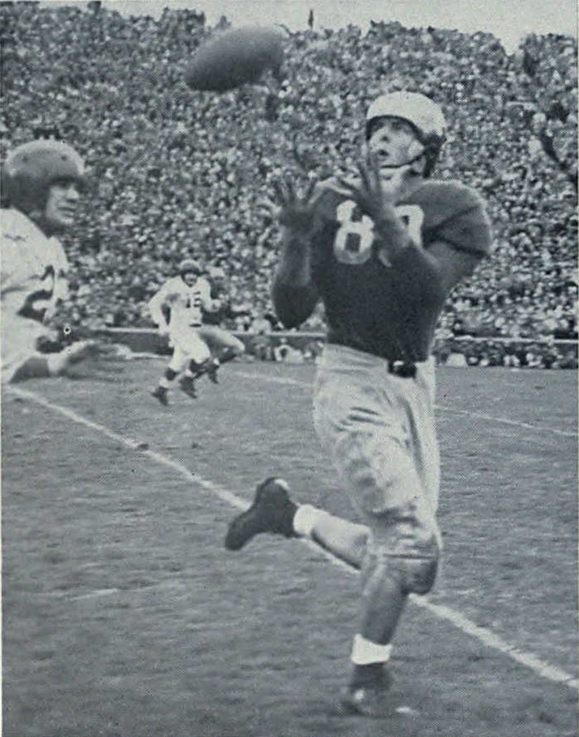 Photograph Dick Rifenburg catching a touchdown pass from Bob Chappuis in 1947 against Indiana